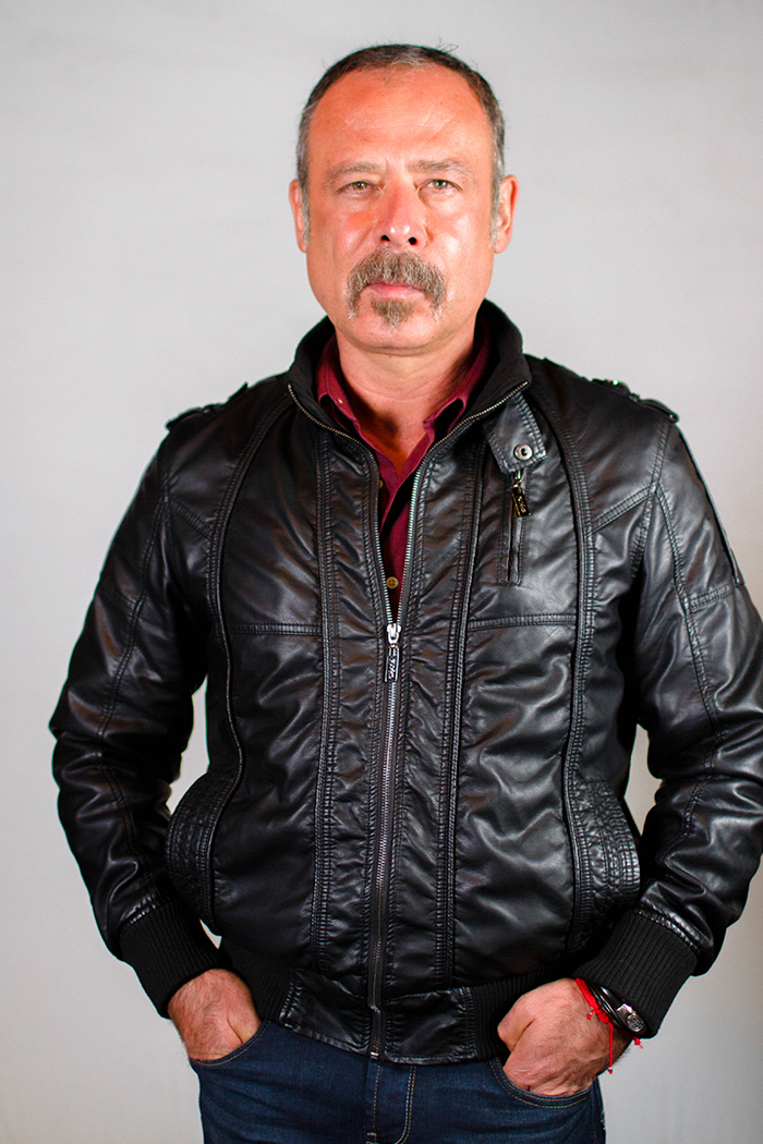 Mexican actor Ireneo Álvarez